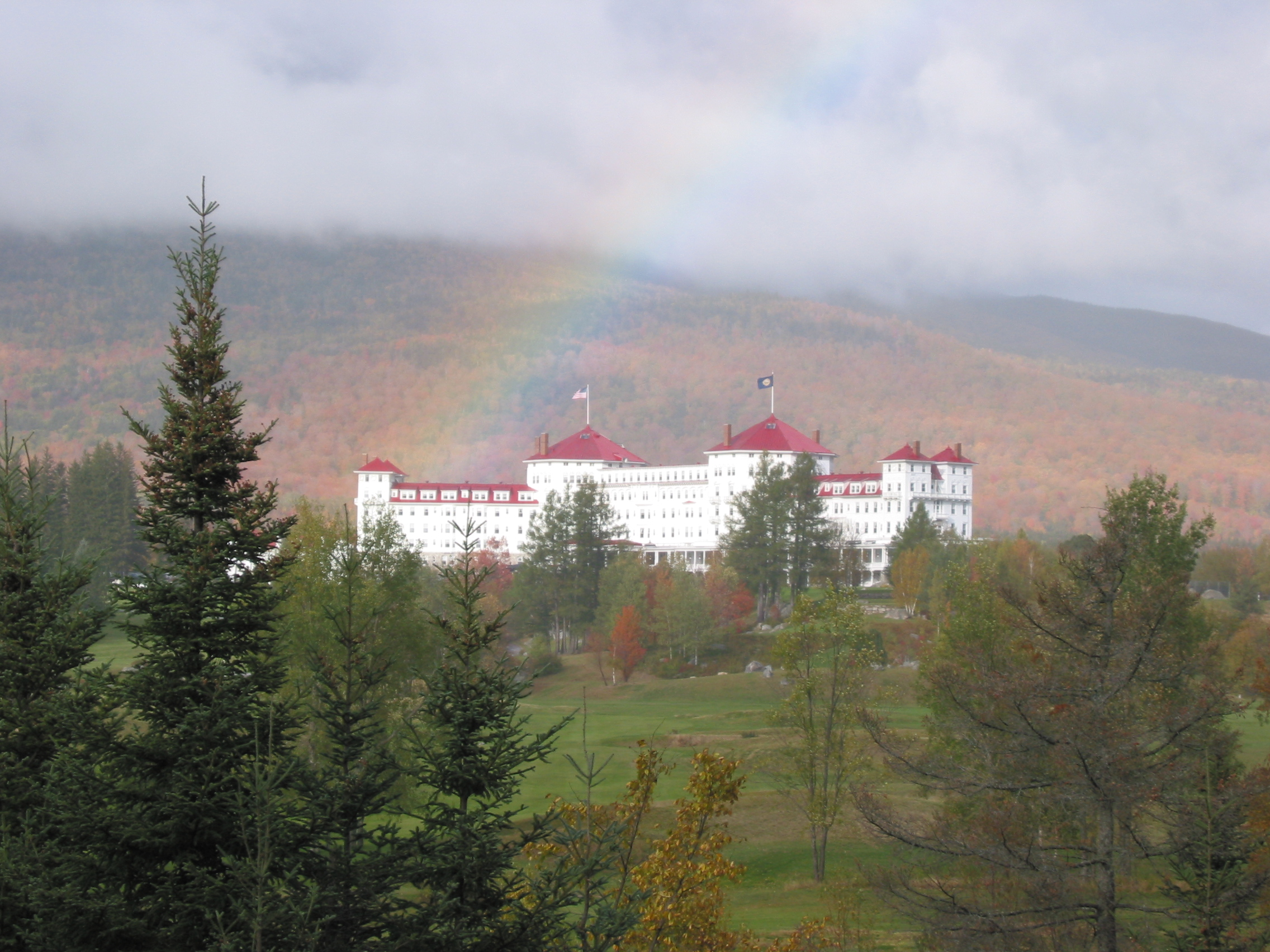 Mount Washington Hotel, Carroll, New Hampshire. In this hotel the Bretton Woods, NH monetary conference took place in 1944 establishing the World Bank etc.